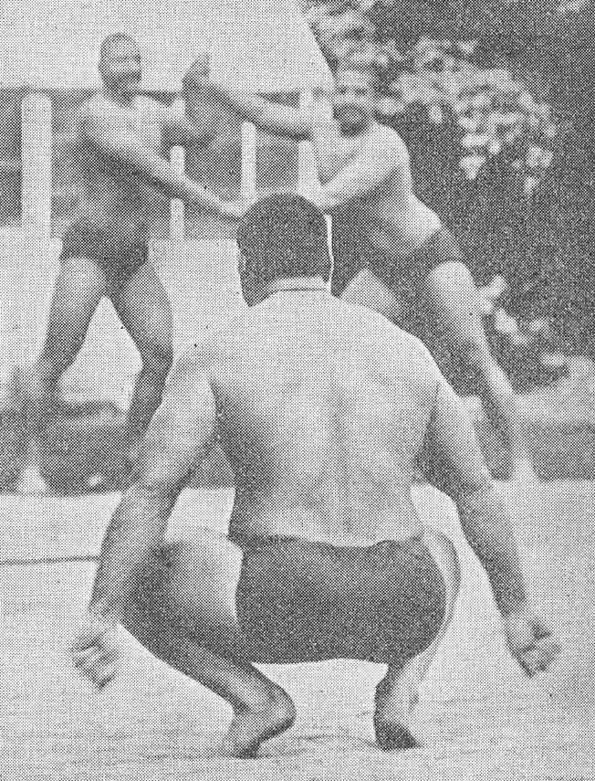 A photo of an Indian wrestler performing baithaks (squats). Based upon another photo of the same workout, the wrestler may be the famous 'Great Gama'. To perform a baithak, the exerciser stands on their forefeet with their hands by their sides. They bend their legs and squat down (the hands have a tendency to turn so that the palms face backwards somewhat during this). The exerciser then stands up again (this has a tendency for the hands to turn inwards and the arms to move somewhat but they stay more or less by the sides).